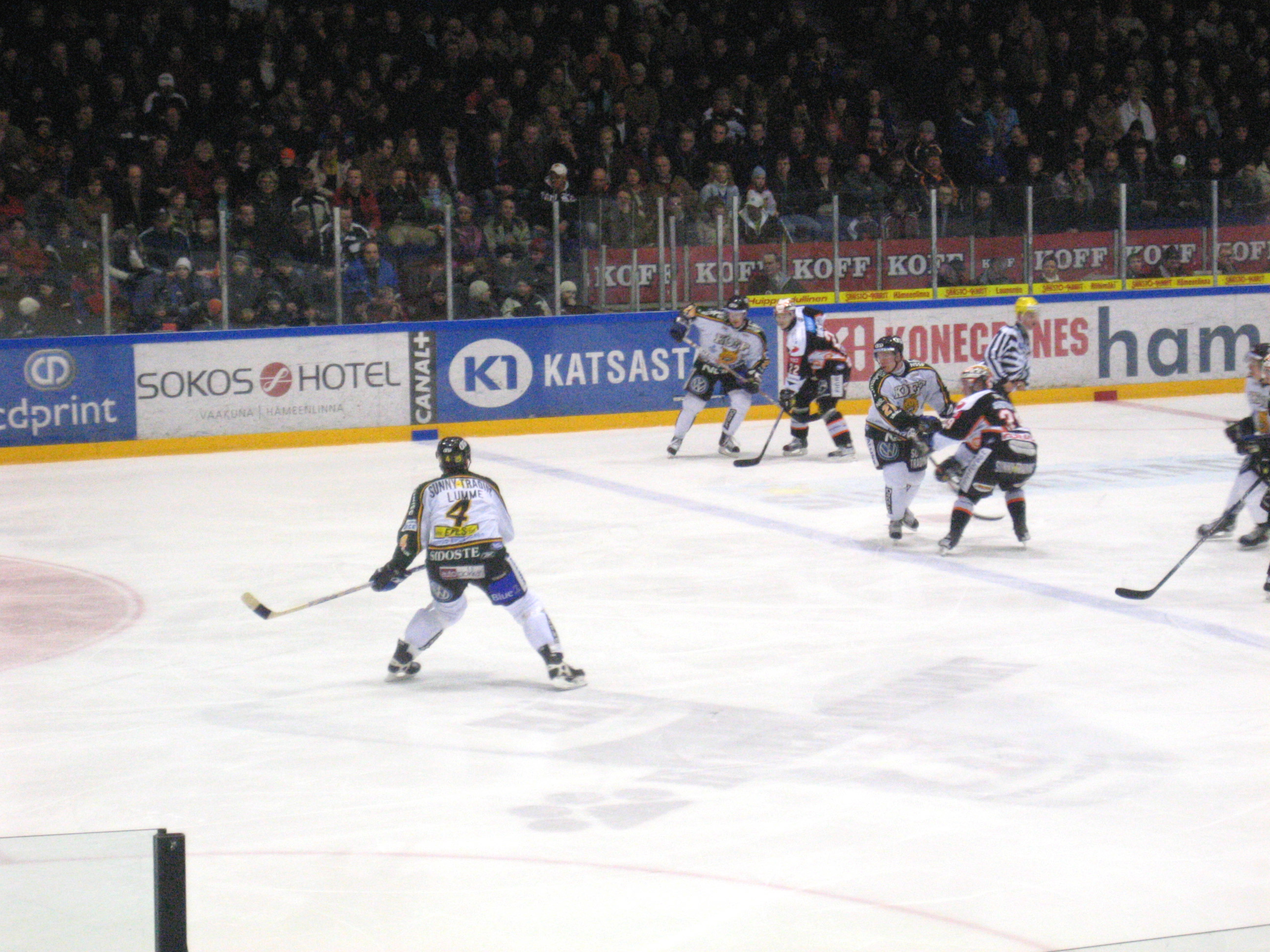 HPK vs. Ilves March 27th 2006. #4 is Jyrki Lumme.